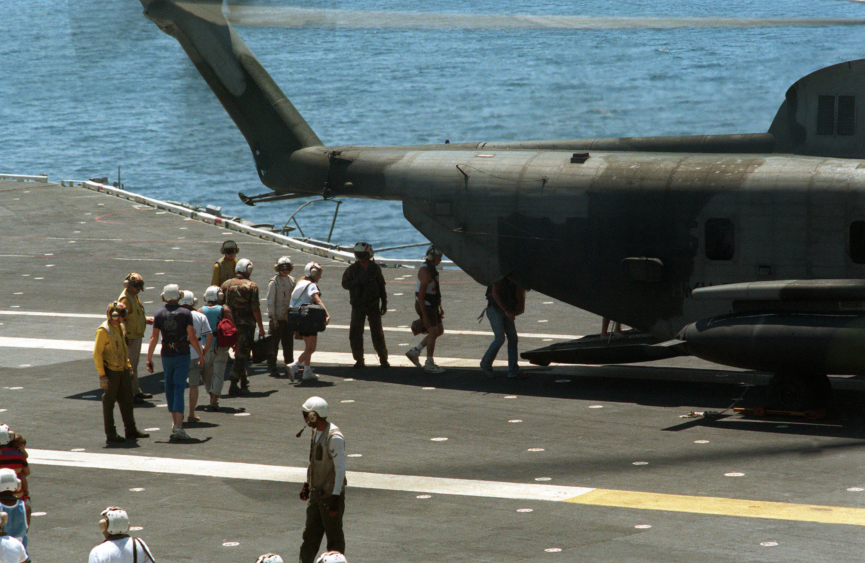 Dependents board a Marine Heavy Helicopter Squadron 772 (HMH-772) CH-53 Sea Stallion helicopter on the flight deck of the USS Midway.